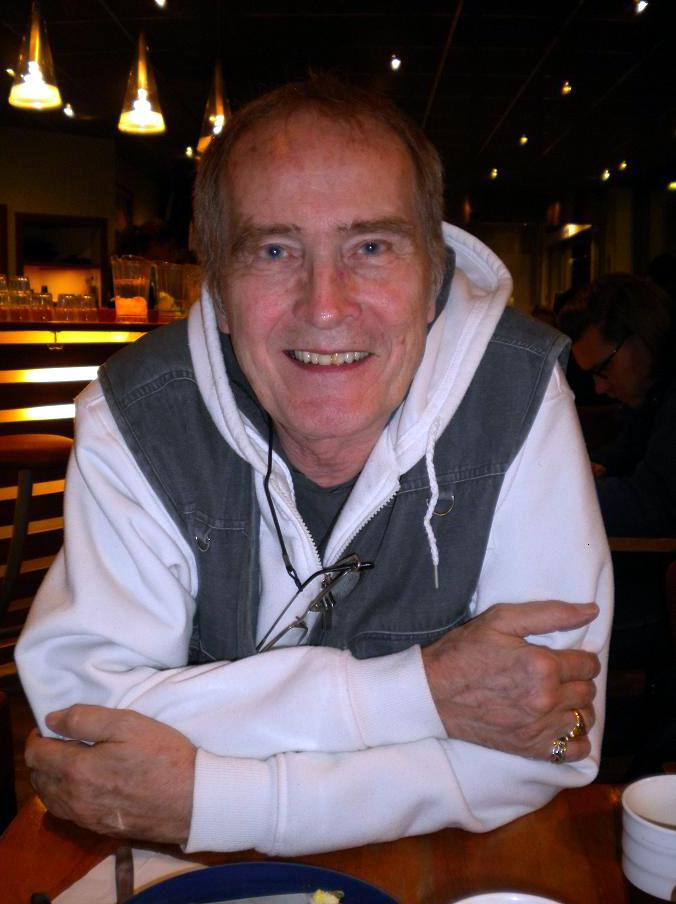 Swedish artist-musician Ulf "Uffe" Neidemar, as released by image creator CabarEngPlace: Södermalm, Stockholm, Sweden